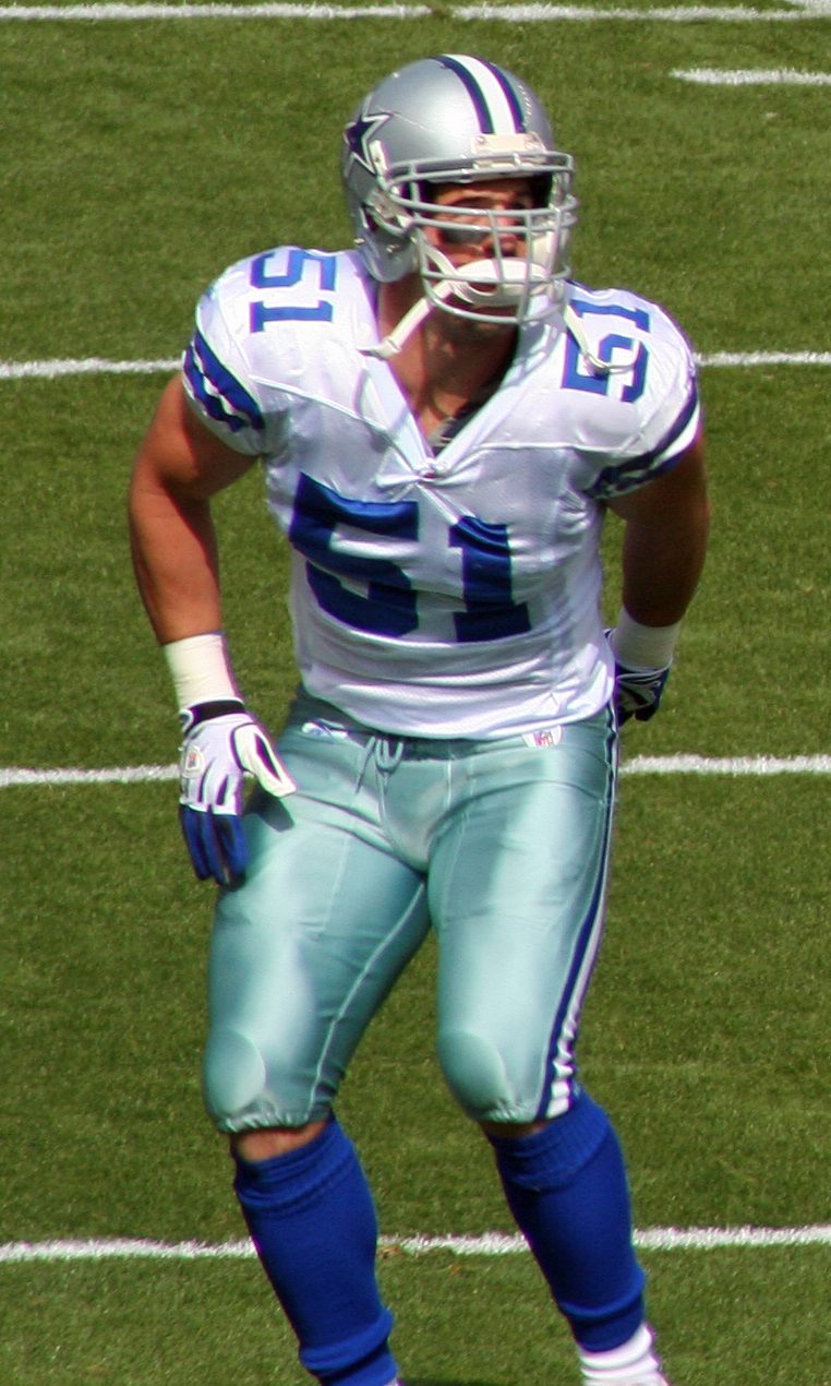 Keith Brooking, a player on the Dallas Cowboys American football team.